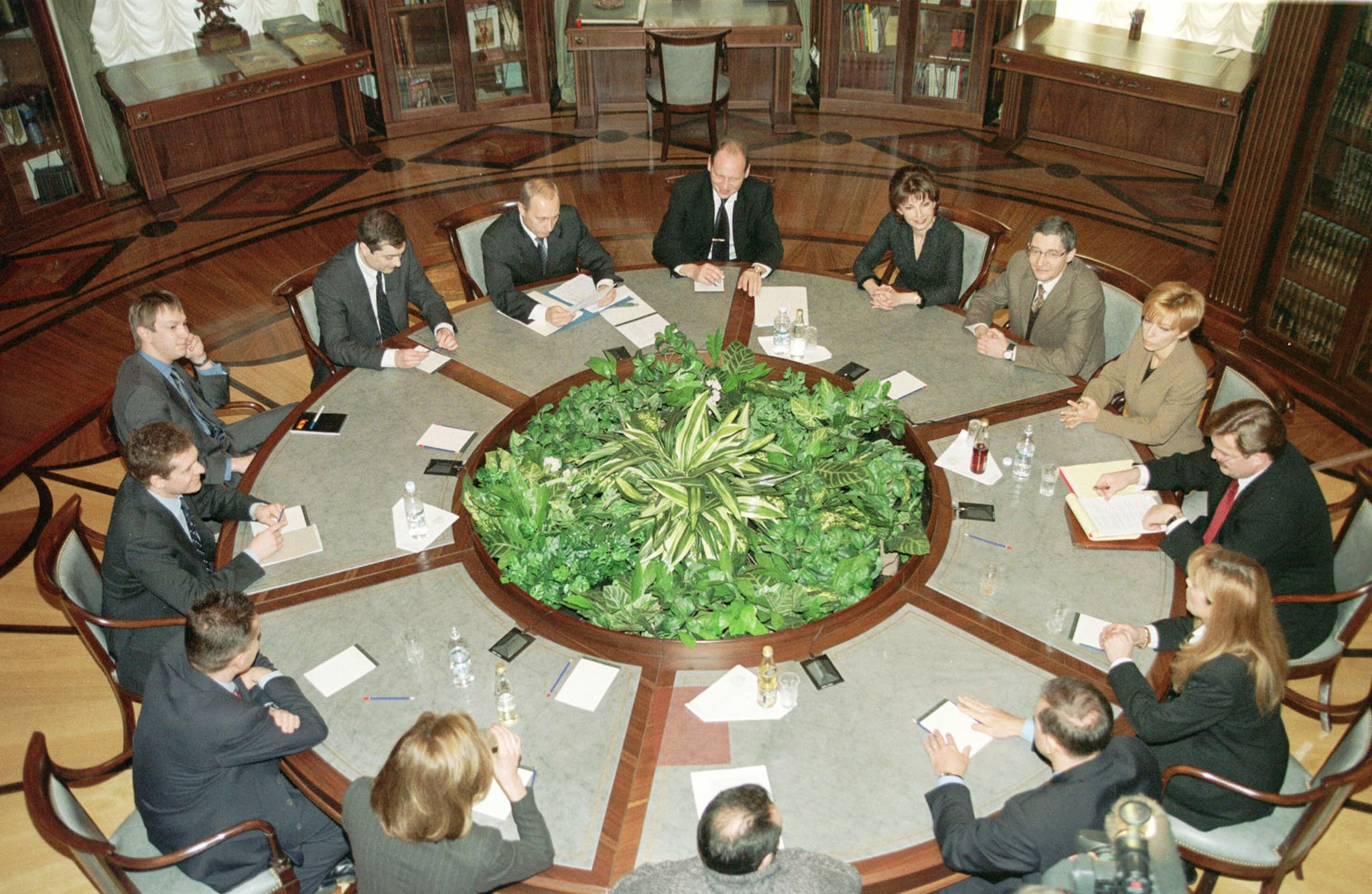 THE KREMLIN, MOSCOW. President Putin with spokesmen of the NTV television company. Tatyana Mitkova, Mikhail Osokin, Marianna Maksimovskaya, Yevgeny Kiselyov, Irina Zaytseva, Nikolay Nikolaev ?, Victor Shenderovich, Svetlana Sorokina, Leonid Parfyonov, Grigory Krichevsky ?, Alim Yusupov.